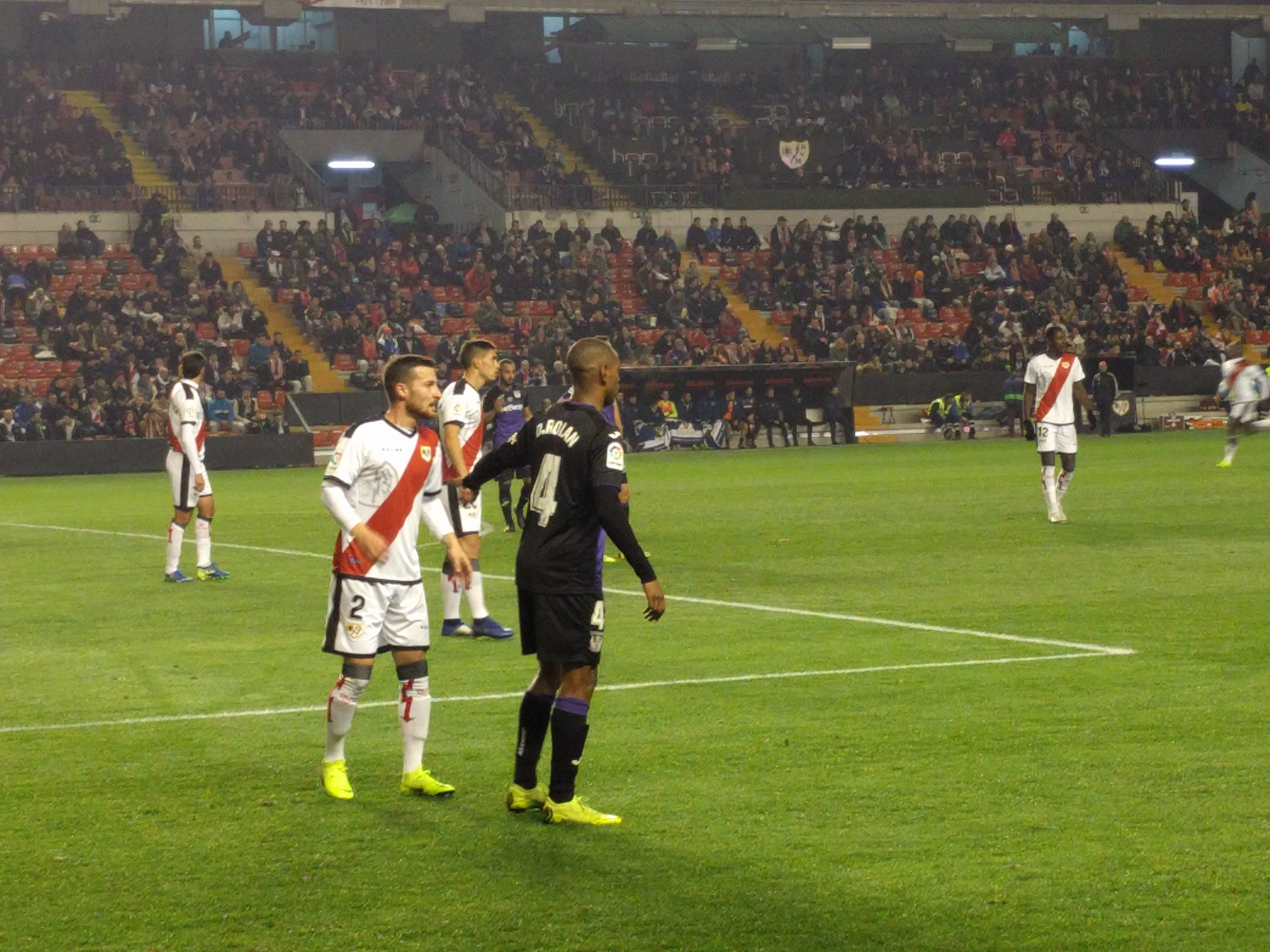 Tito Román in the match of Copa del Rey Rayo 0:1 Leganés, December 4th 2018